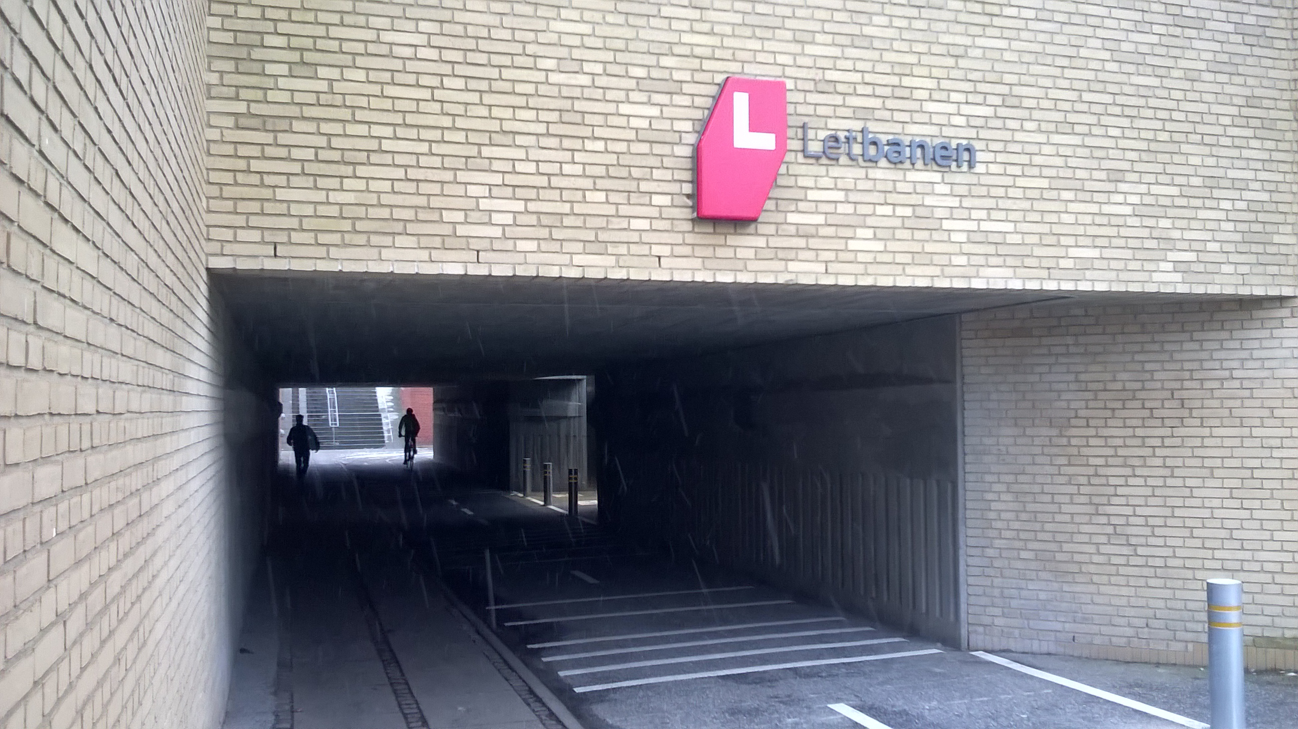 Universitetsparken Station Tunnel